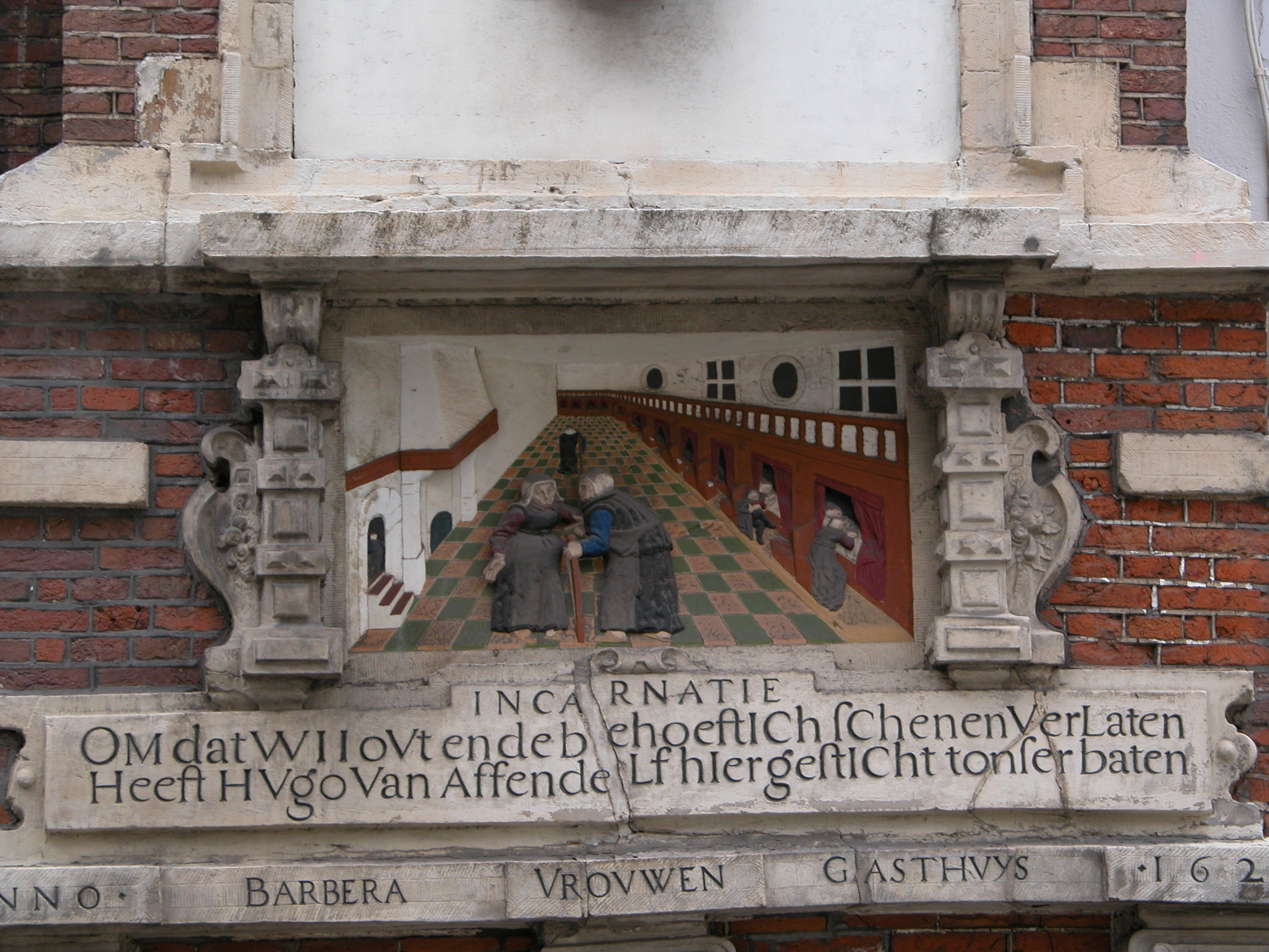 Gable stone, Jansstraat, Haarlem, Netherlands. This gable stone is above a former gateway built in 1624 that belonged to the women's hospital and hofje founded in 1435 called the "St Barbara Gasthuis". Only the door and the gable stone remain after demolition in 1845, which today is protected as a National Heritage site.